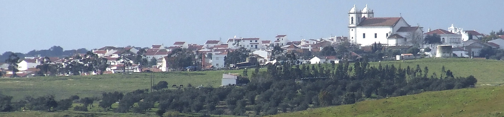 Panoramic View of Castro Verde from S. Pedro das Cabeças